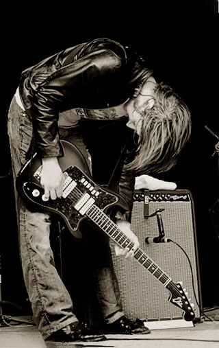 The Von Bondies